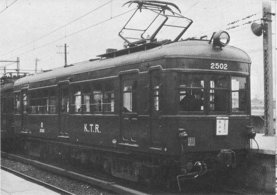 Keio Corporation 2500 series EMU car 2502 at Sakurajōsui Station